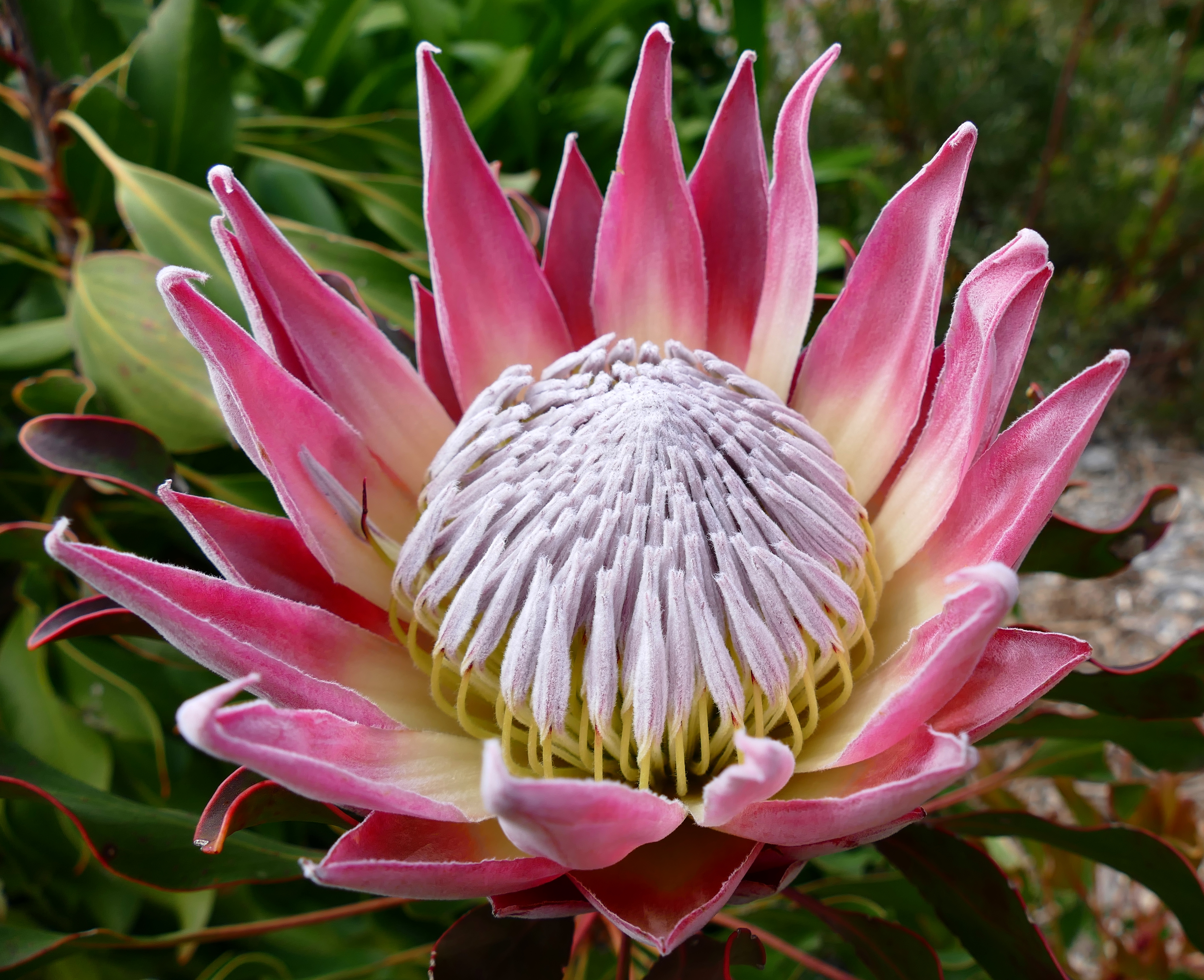 Kirstenbosch National Botanical Garden, Cape Town, Western Cape, SOUTH AFRICA